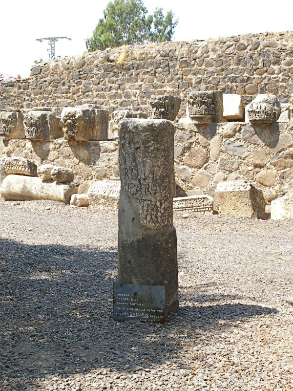 The romane empire milestone in Capernaum, Israel